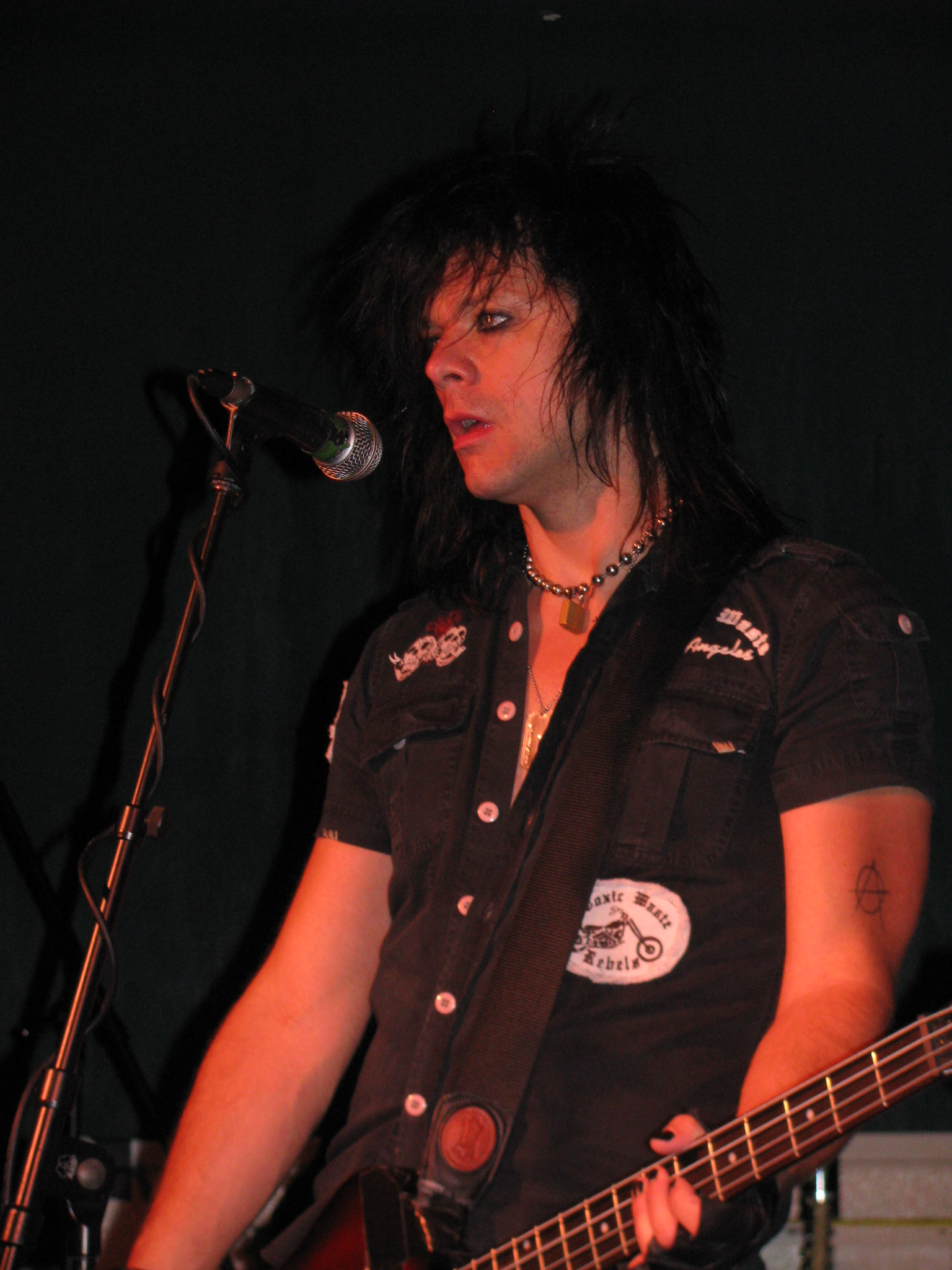 Scotty Griffin at Northern Lights 2008